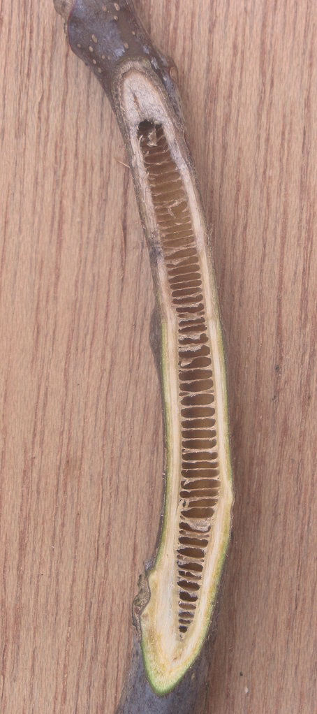 chambered pith of a 2-year-old walnut twig, late November